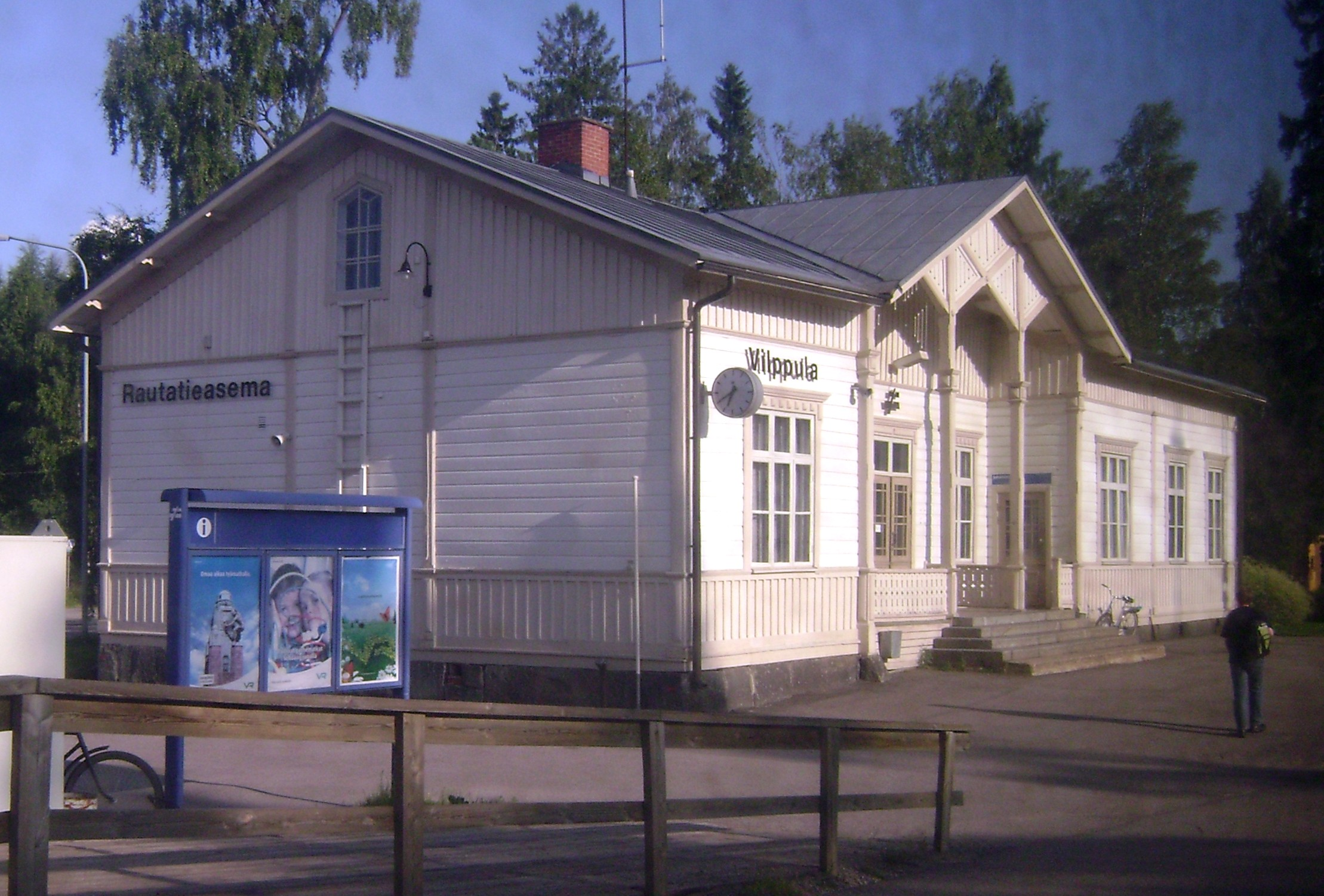 Vilppula railway station